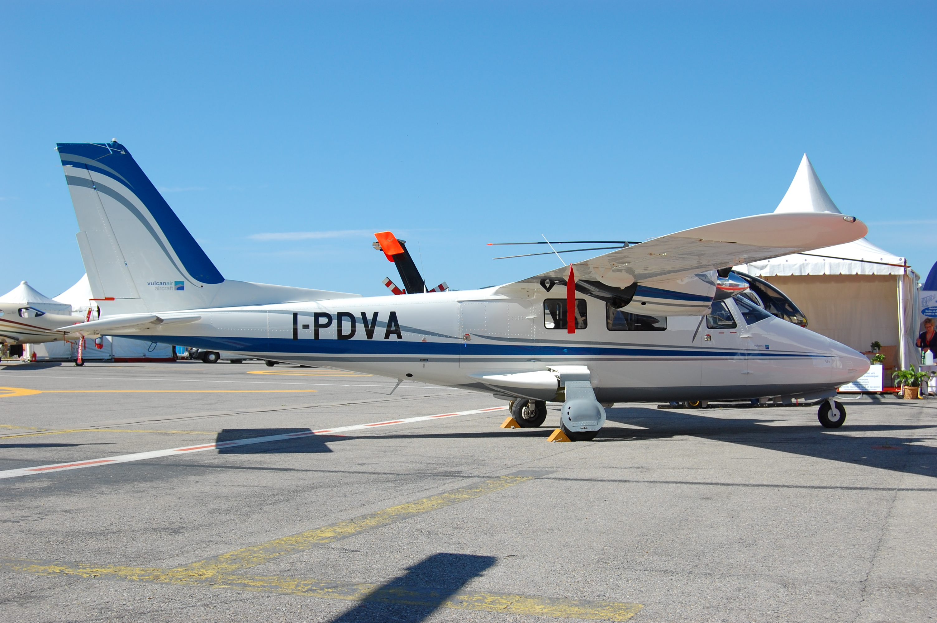 Vulcanair P68 sideview